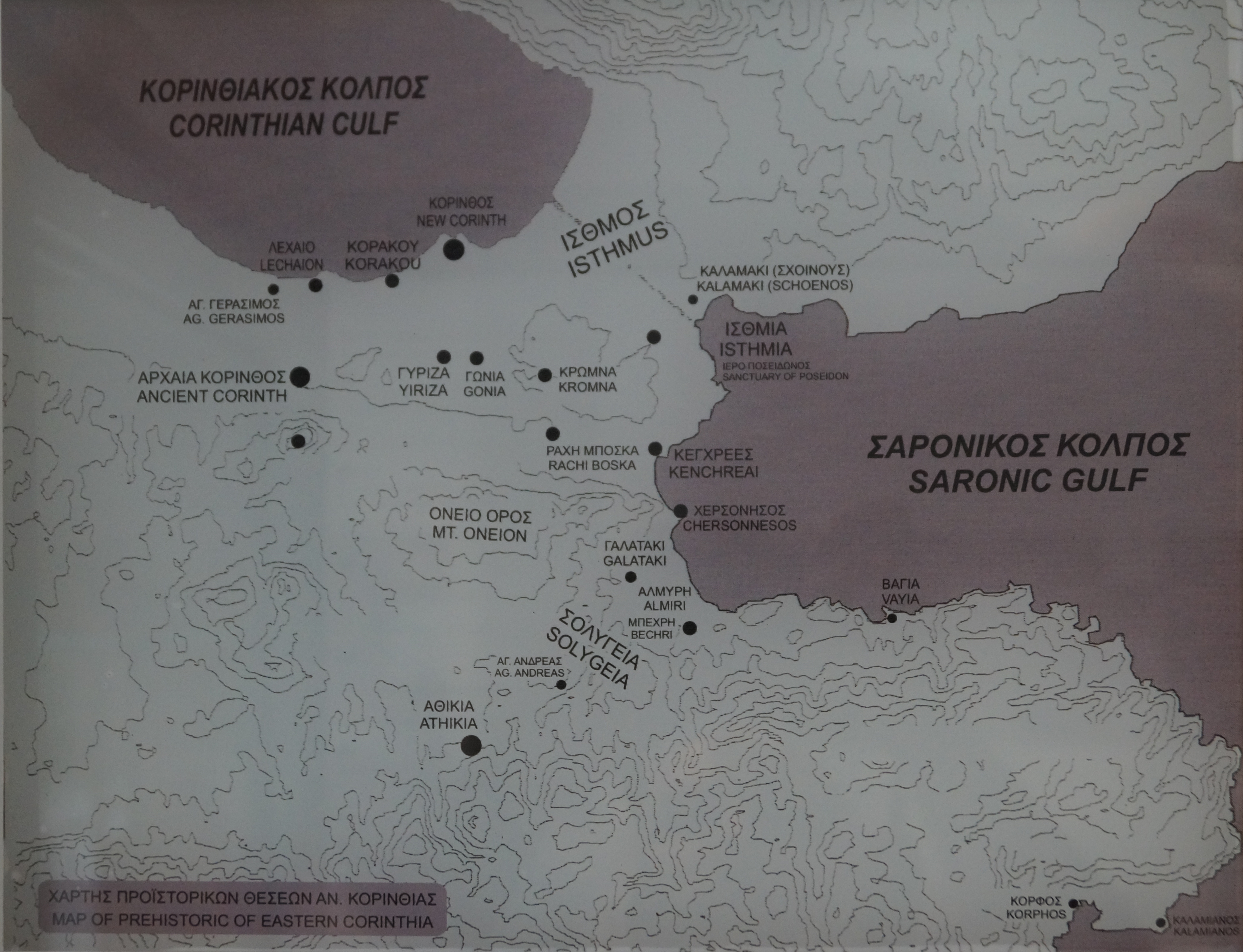 Archaeological Museum of Isthmia: Map of prehistoric sites of Eastern Corinthia